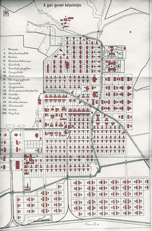 Map of the Diósgyőr-Vasgyár housing project, before 1910